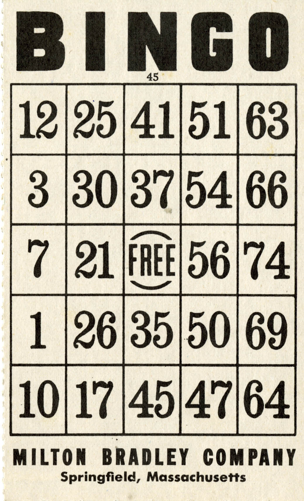 Black and white bingo card.